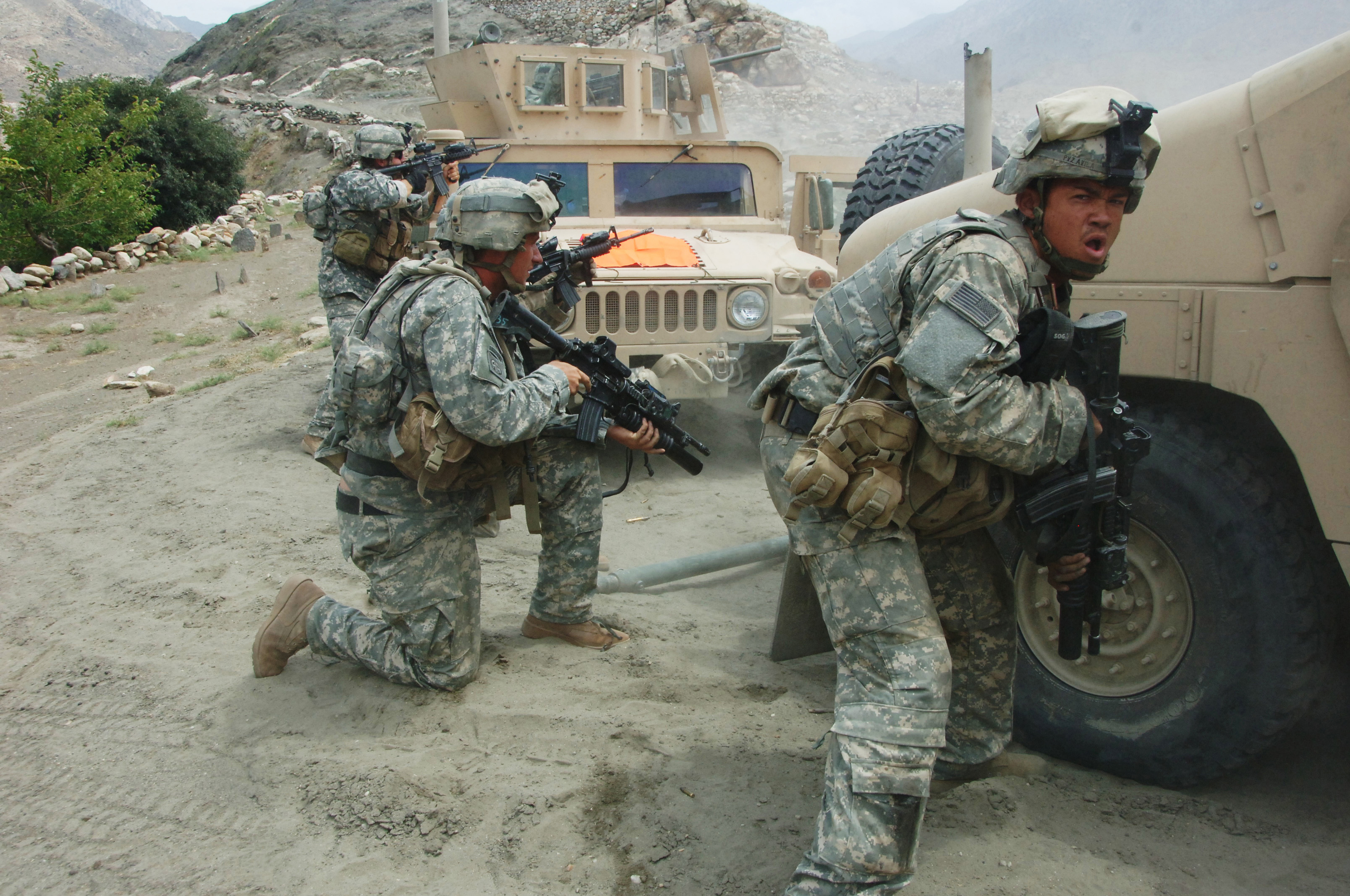 U.S. Army Spc. Chris Avila, right, and other soldiers engage Taliban forces during a halt to repair a disabled vehicle near the village of Allah Say, Afghanistan, on Aug. 20, 2007. Avila is assigned to Foxtrot Company, 2nd Battalion, 82nd Aviation Brigade.afghanistan